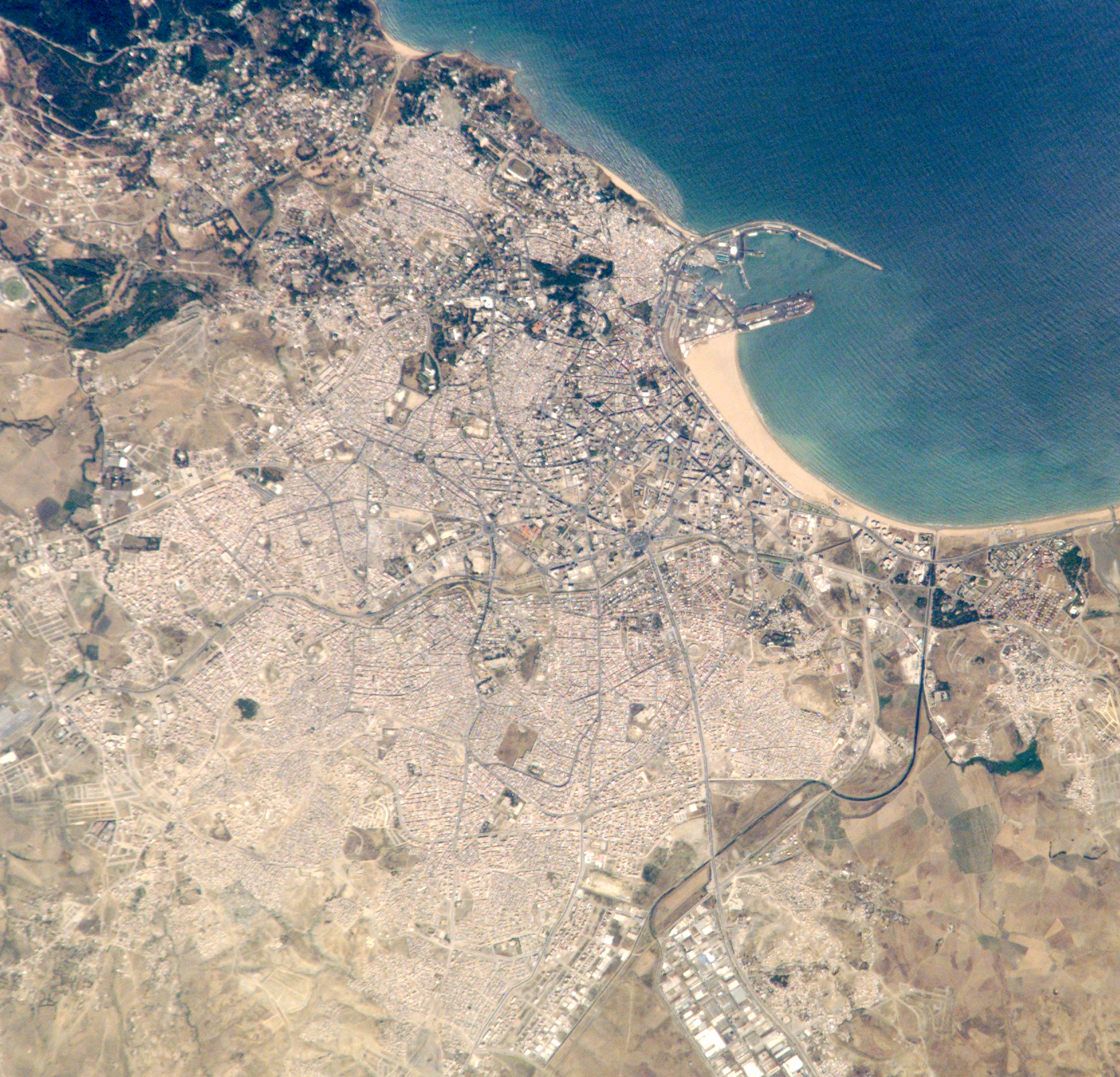 = Tanger (Tangier) Morocco - NASA view